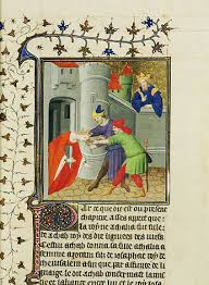 Athaliah, Queen of Judah, dragged from the Temple.